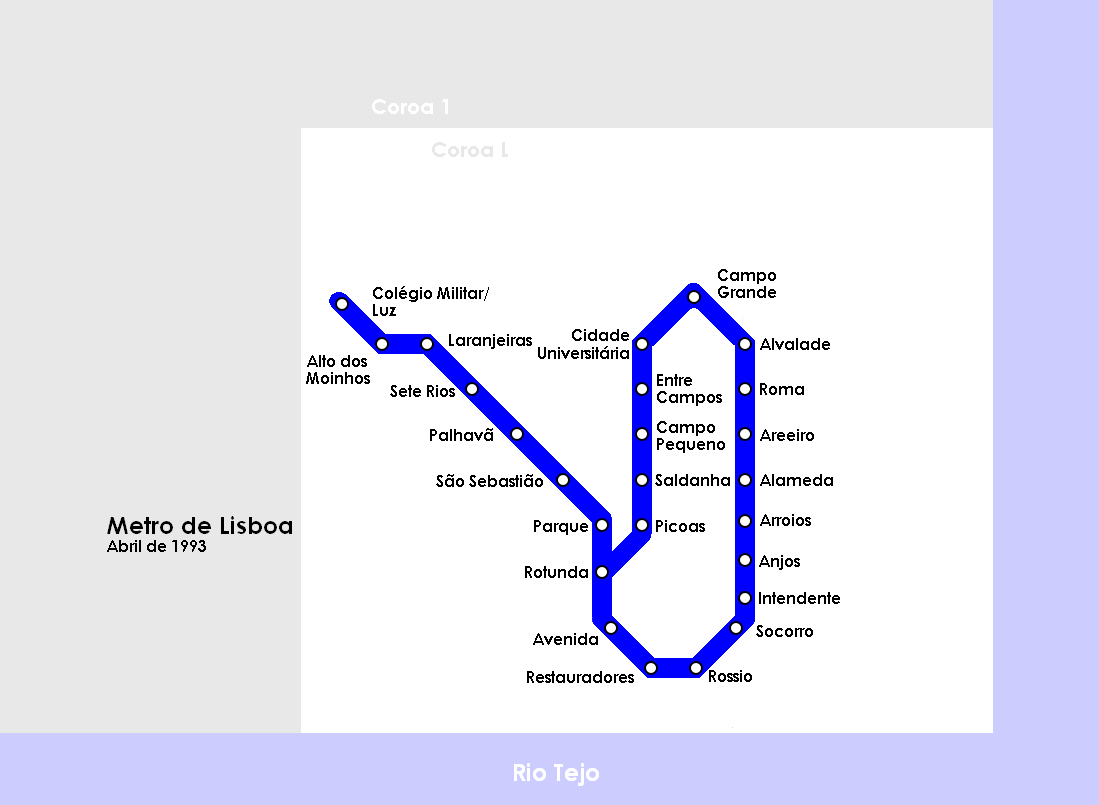 Map of Lisbon Metro in April 1993